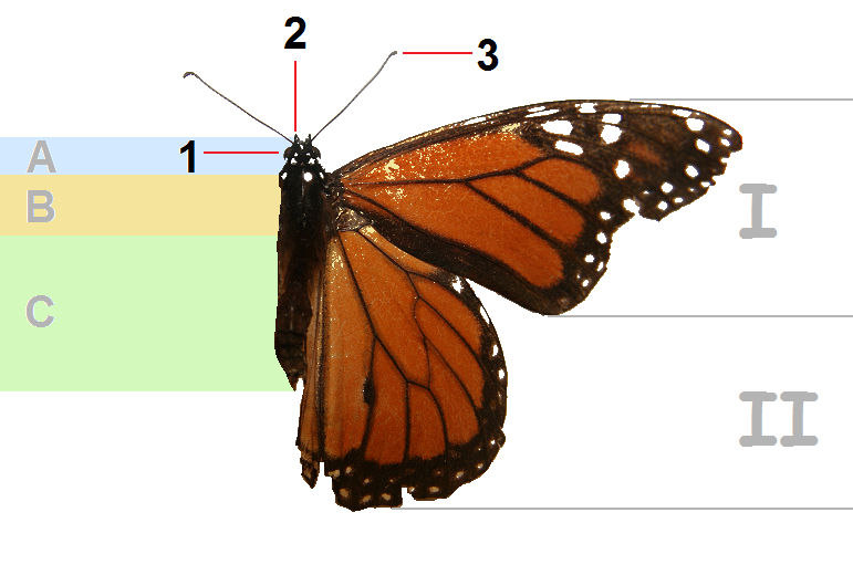 A Danaus plexippus in the Enos collection. Caught August 21st, 2007.